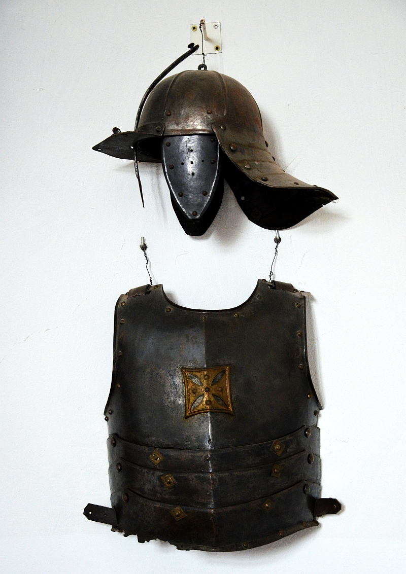 Weapons in the Historical Museum in Sanok